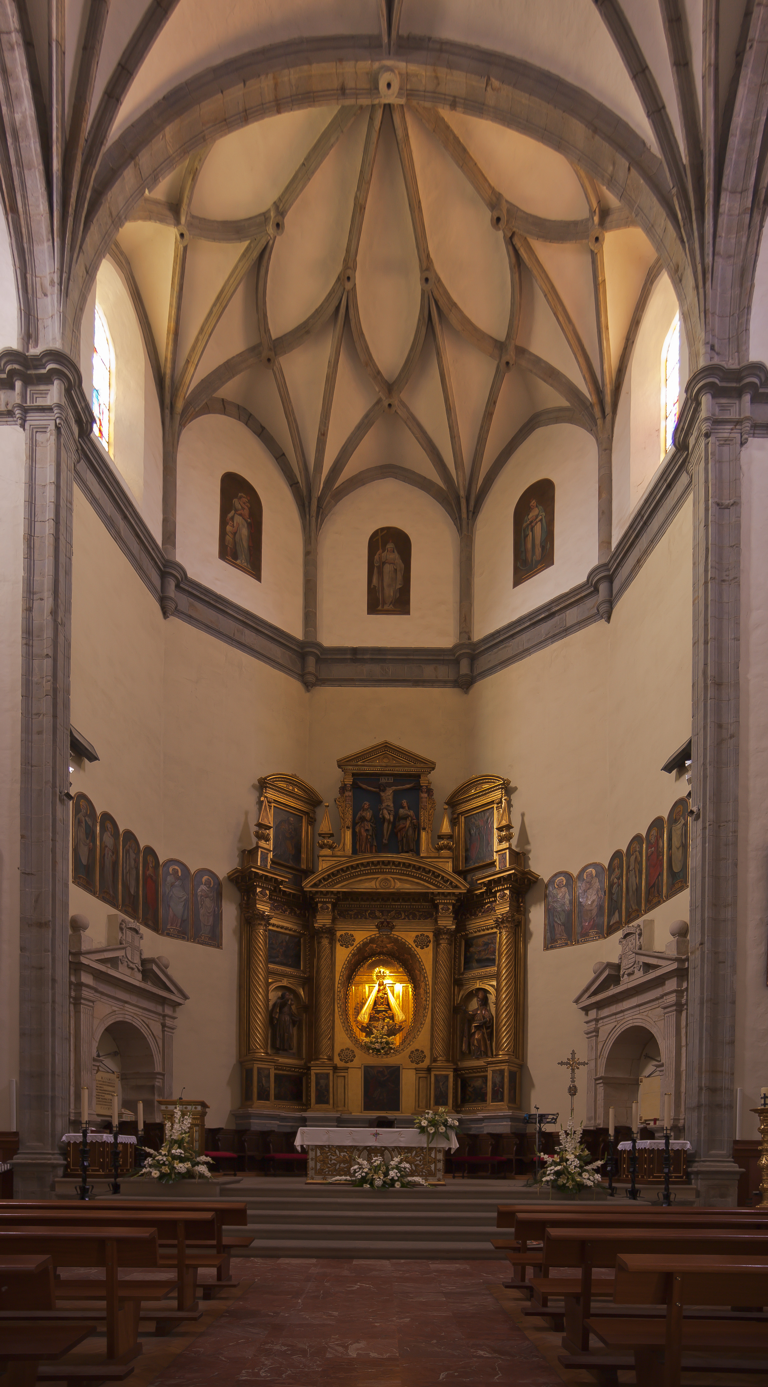 Basilica of Nuestra Señora de los Milagros, Ágreda, Spain